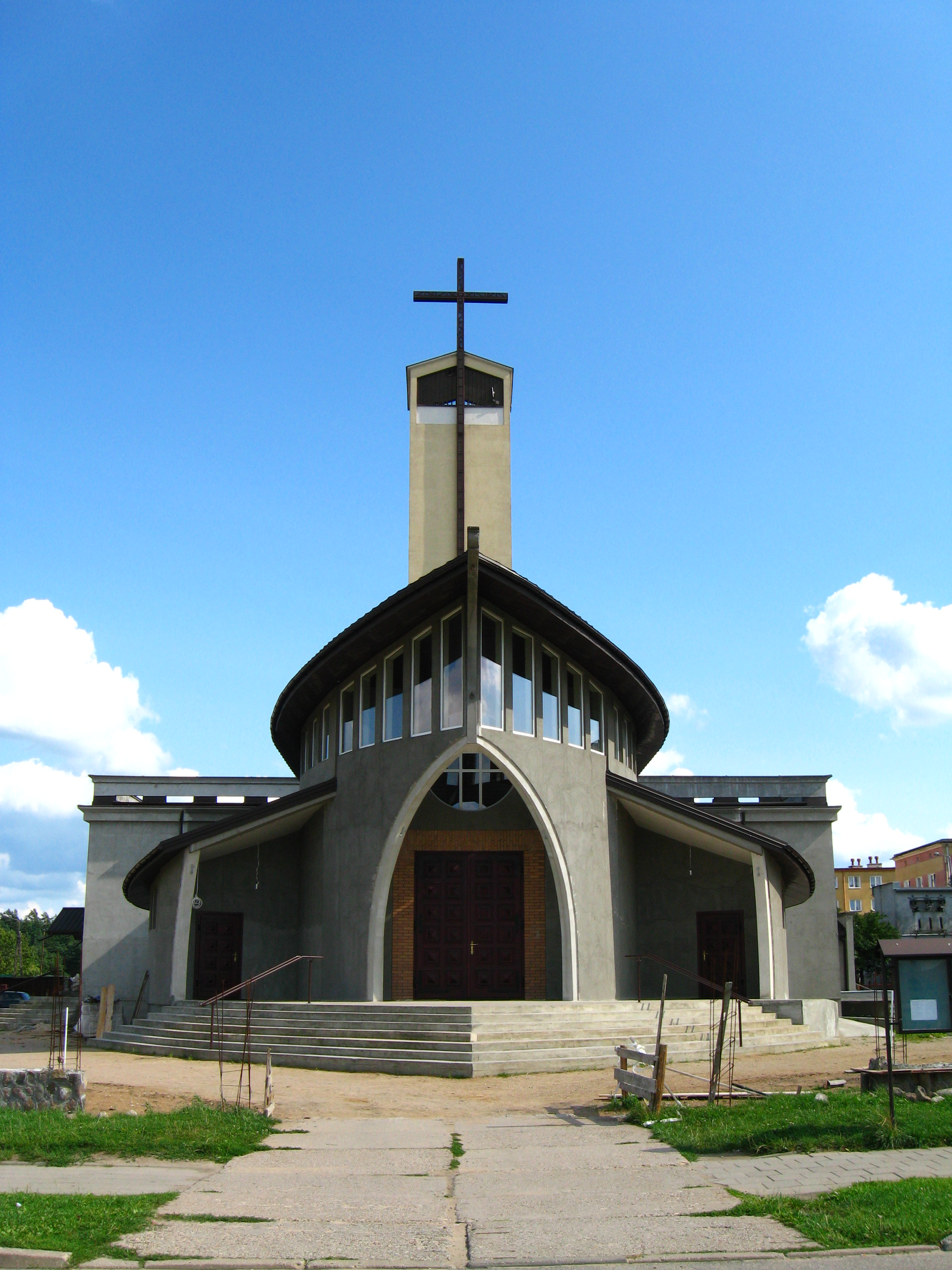 Roman–catholic church of Merciful Jesus (2005?)